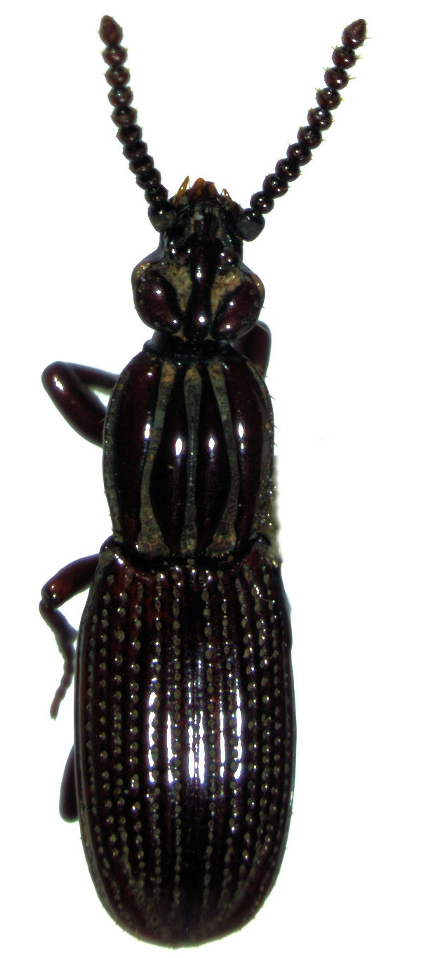 adult Kaveinga lusca